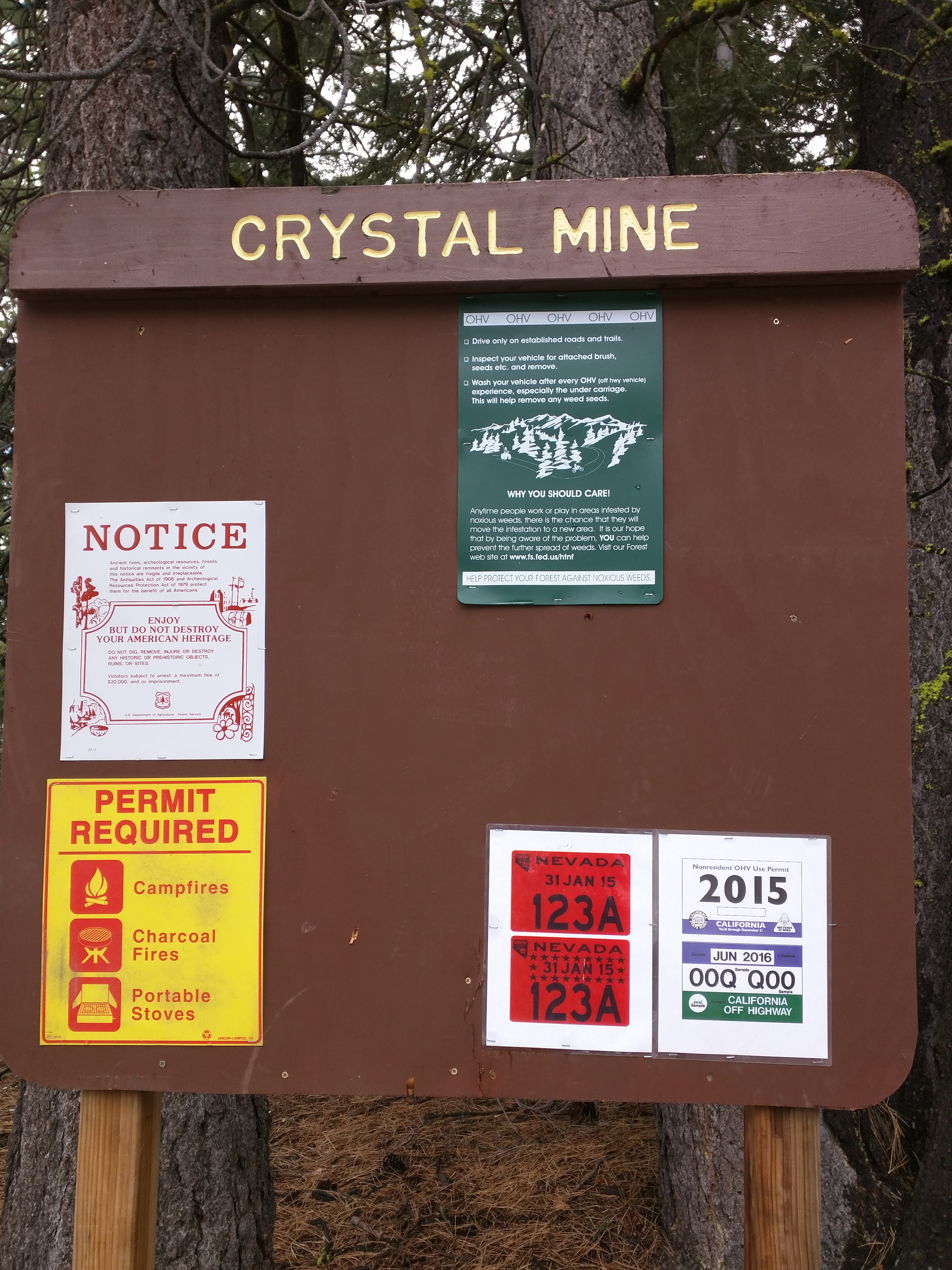 The sign placed by the National Forest Service at the Crystal Peak Mine